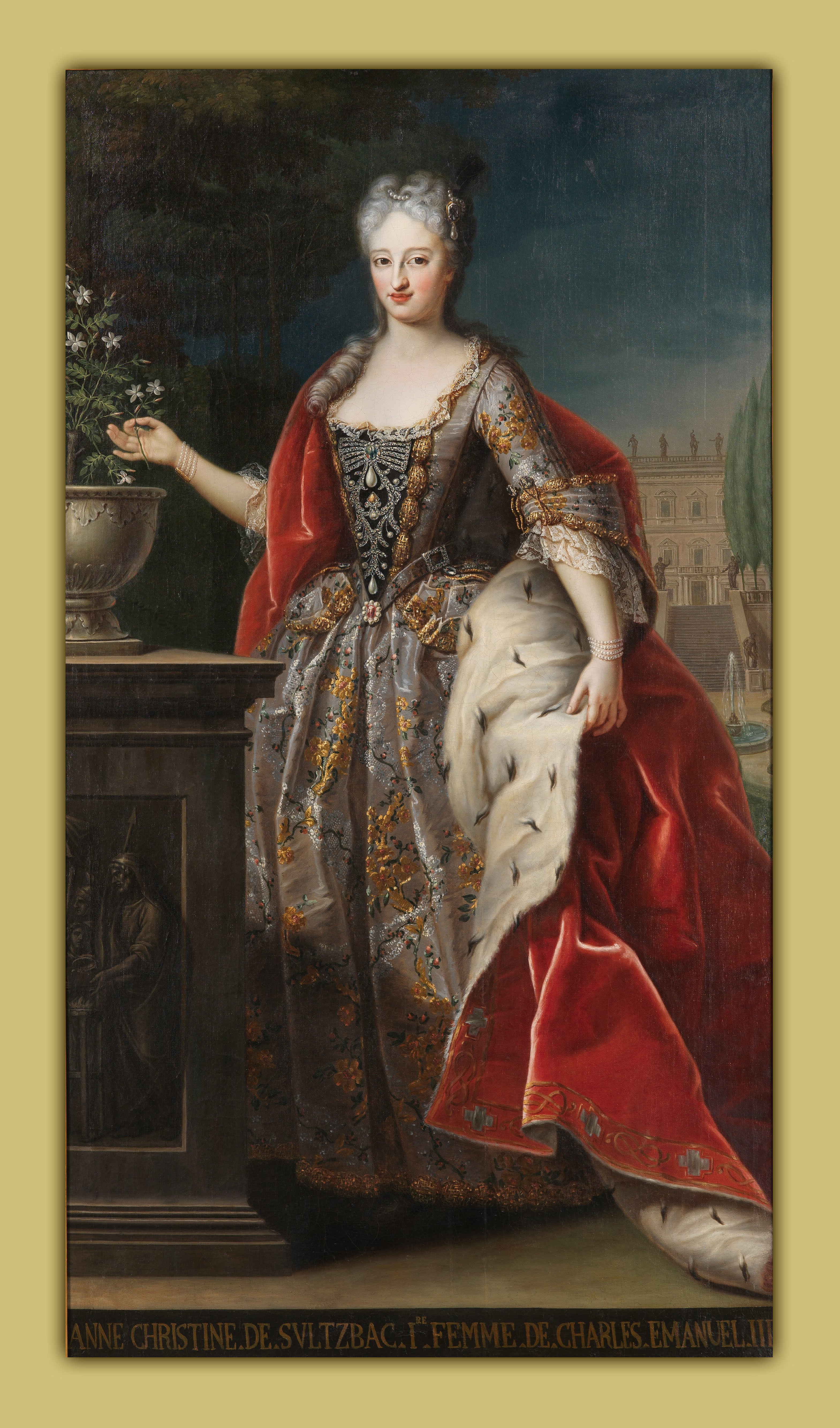 Portrait of Anna Cristina di Sulzbach (1704-1723)